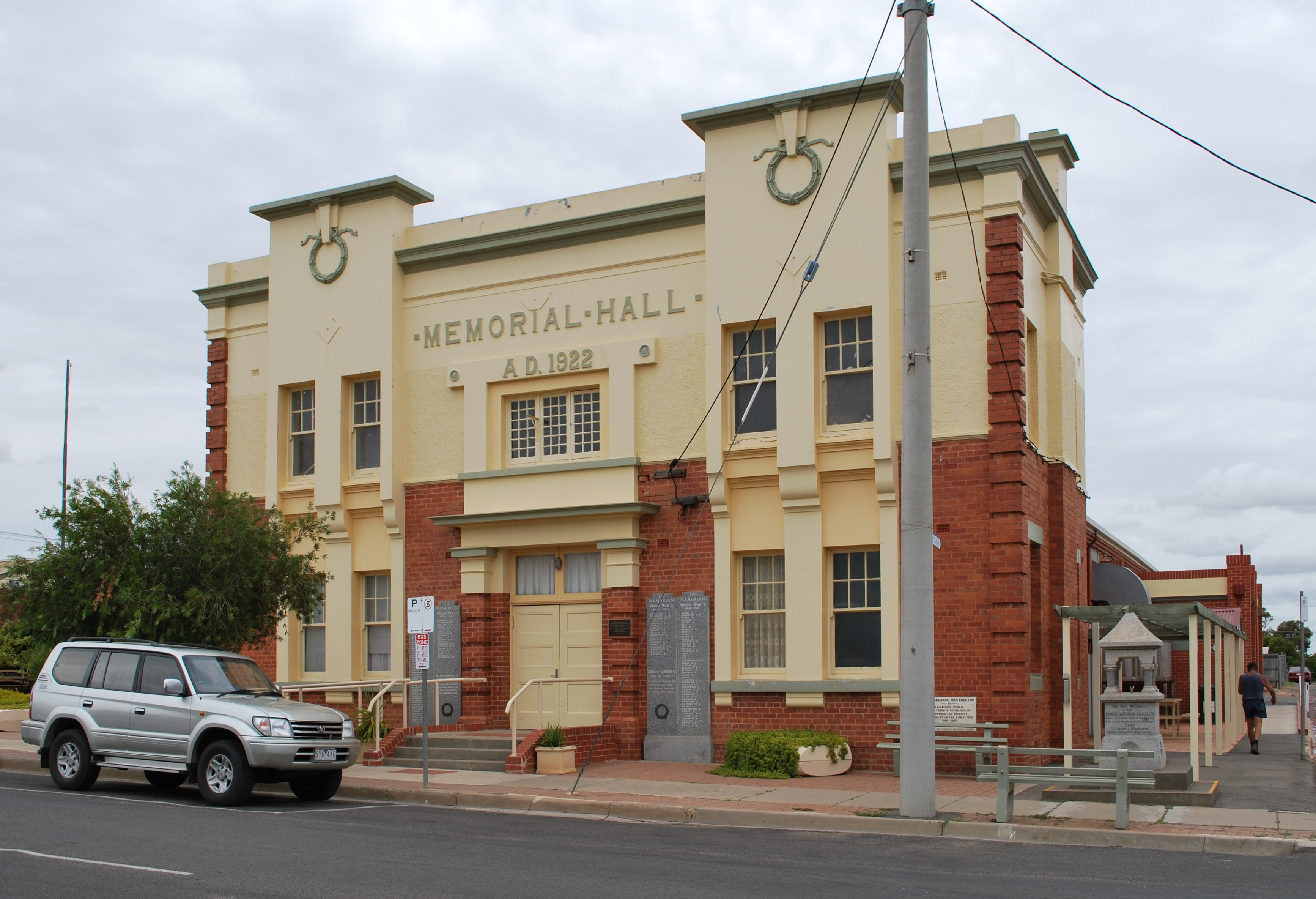 Memorial Hall at Hopetoun, Victoria. A pioneer memorial can be seen to the bottom right